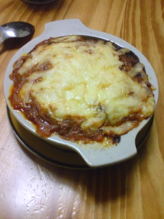 Meat doria which ふぇんりる's little sister made.This photo was taken by ふぇんりる